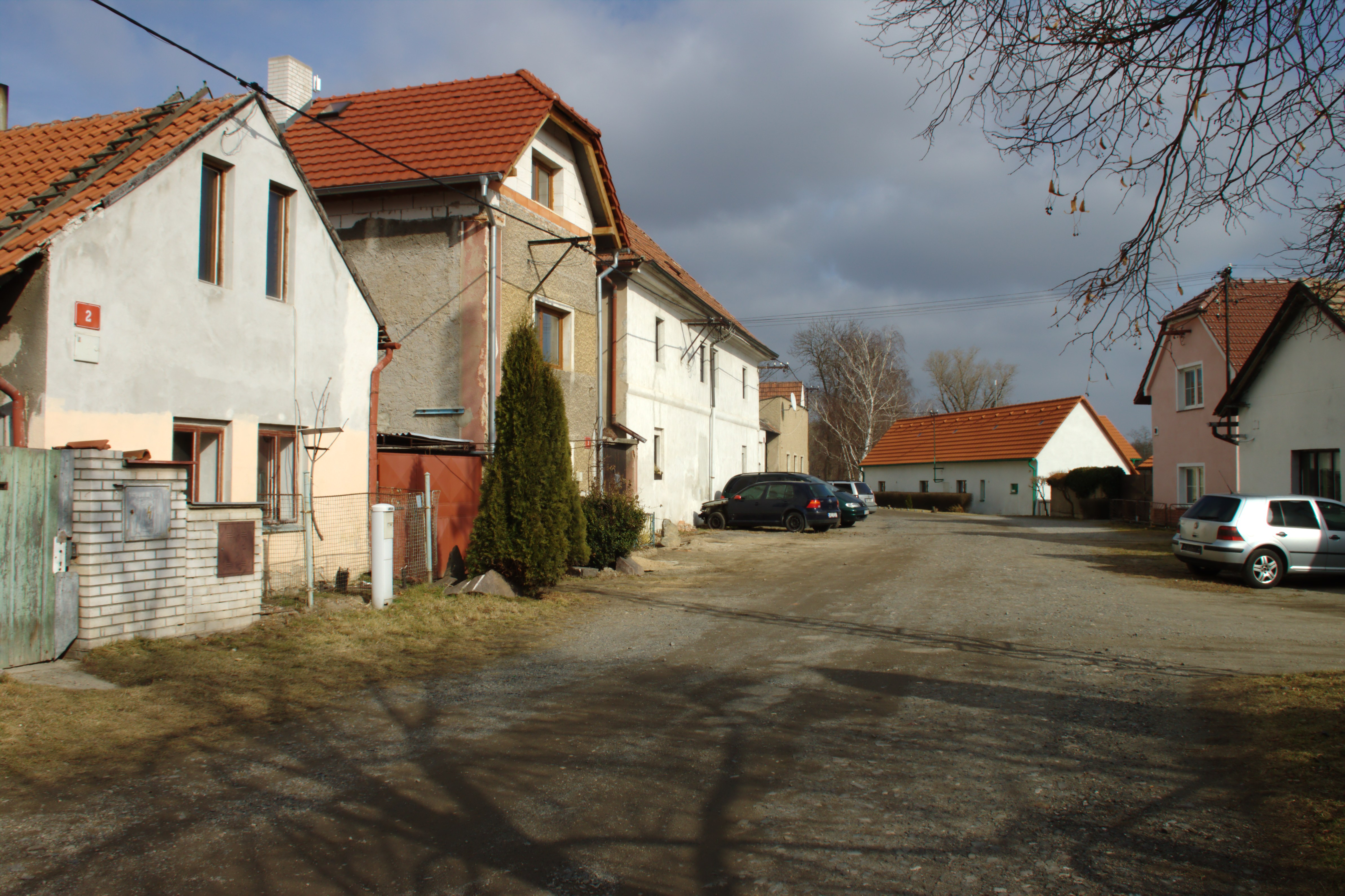 A common in Staré Ouholice, Central Bohemian Region, CZ